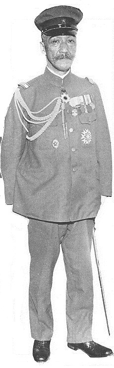 Kenkichi Ueda